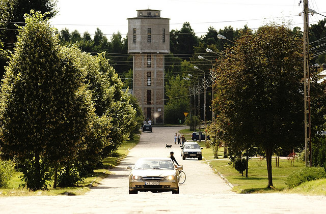 Water tower at train station and Leśna Street in Augustów, Poland.